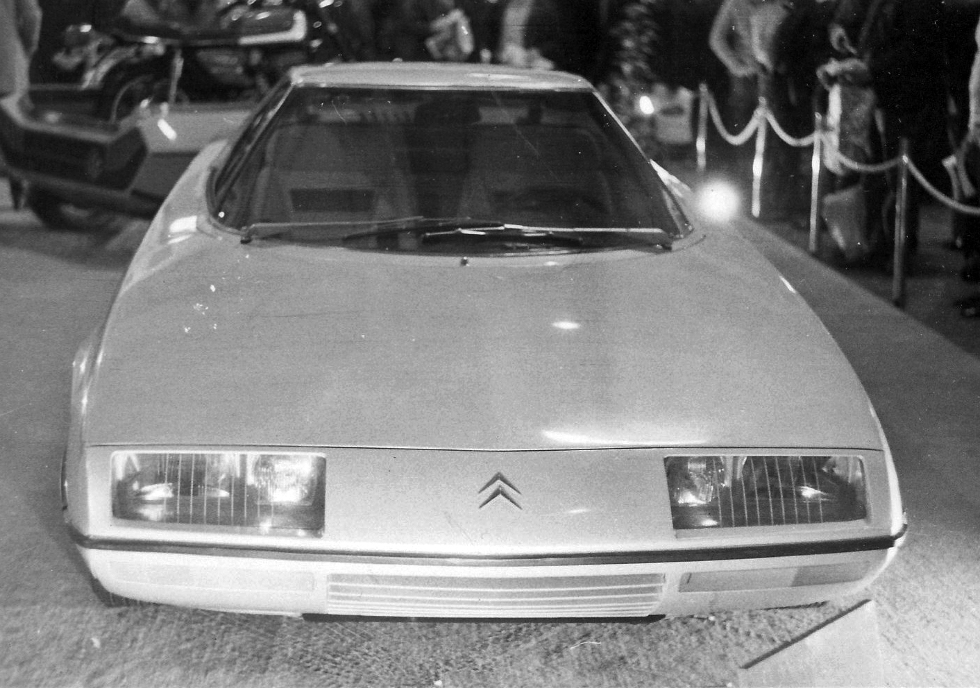 The Bertone-designed Citroën GS Camargue at the Earls Court Motor Show, London, 1972.